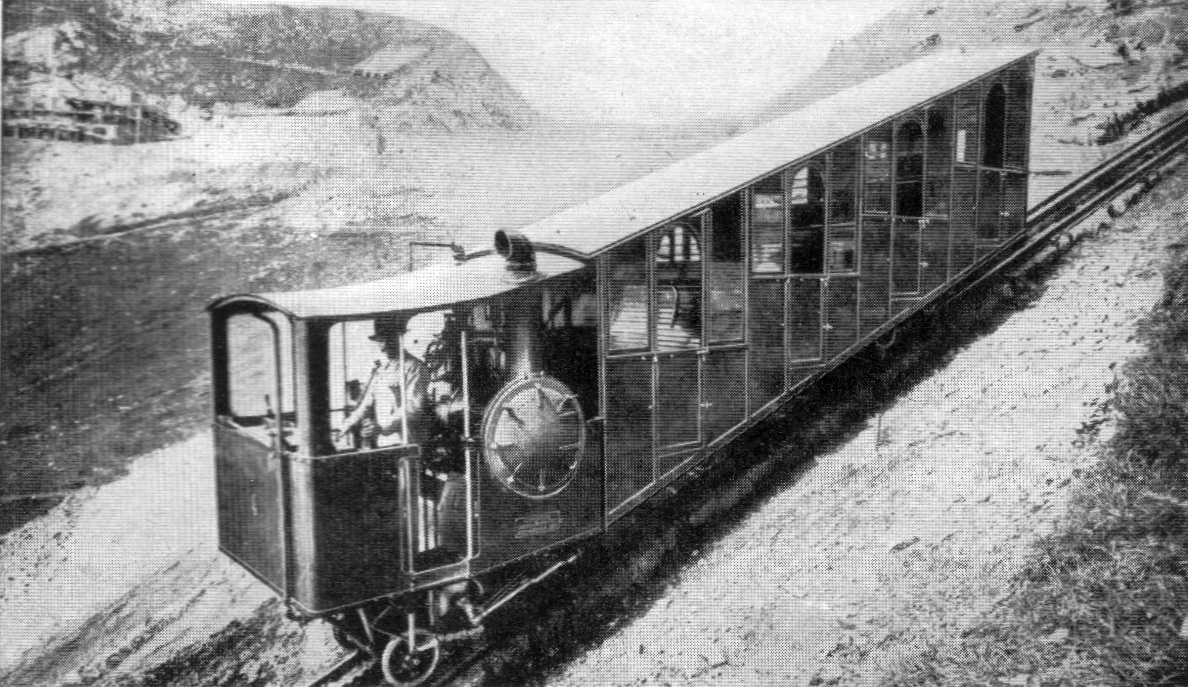 steam railcar of the Pilatusbahn, Switzerland